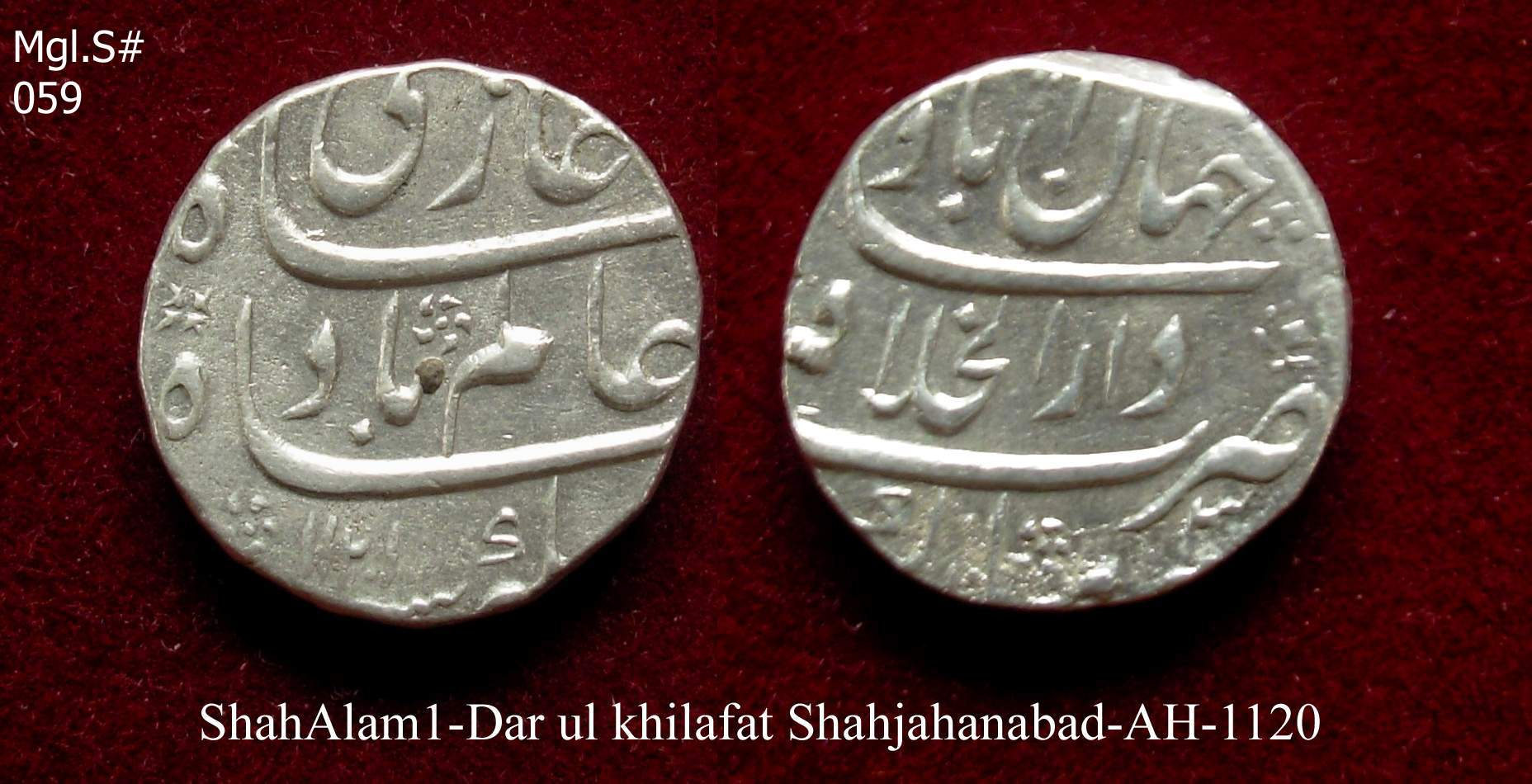 A rupee coin of Shah Alam I from my cabinet